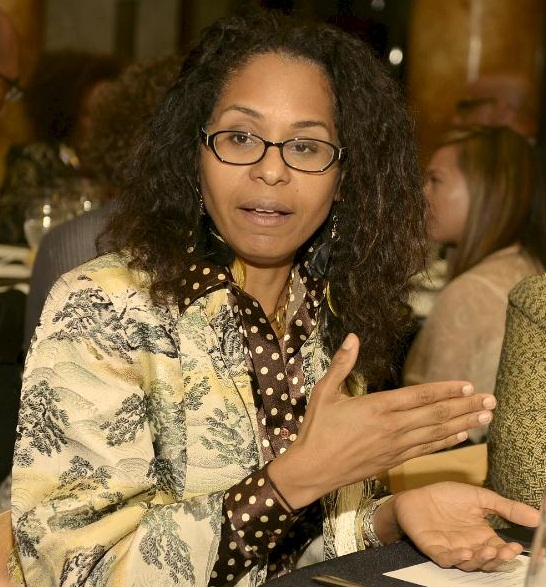 LA County Commissioner Sydney Kamlager at a function at the Natural History Museum